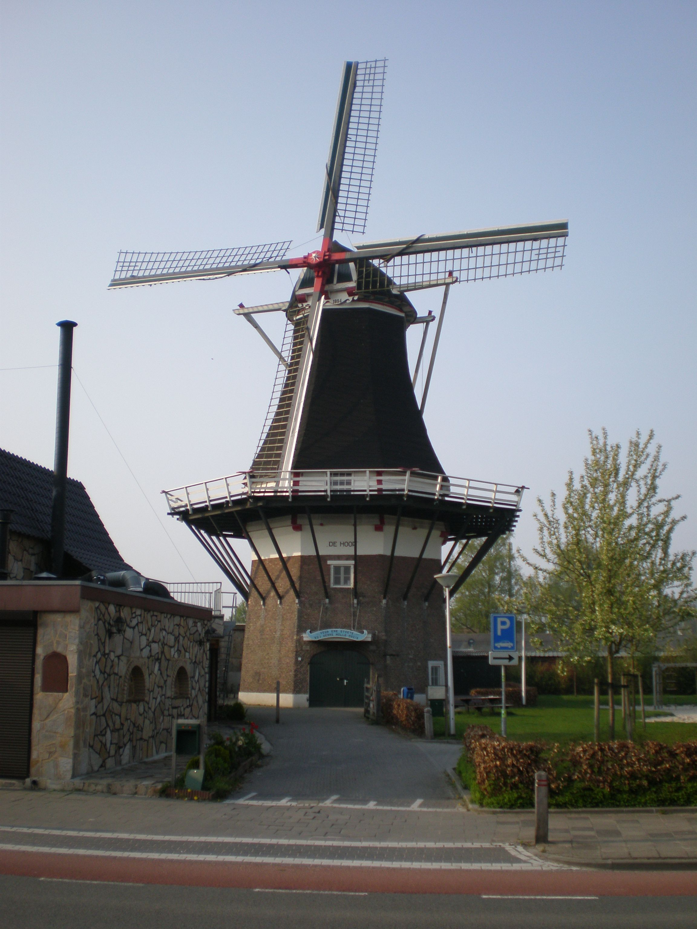 A picture of a windmill, De_Hoop_(Almelo)